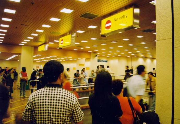 Arrival Terminal of Hong Kong Kai Tai Airport (Closed)